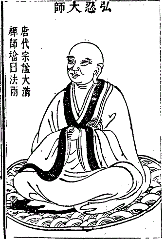 Portrait of Hongren